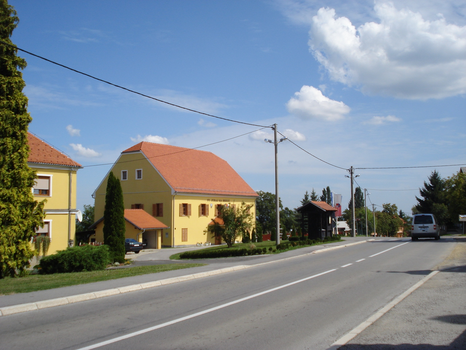 Sveti Juraj na Bregu (St.George on the Hill), Medjimurje County, Croatia - centre of the village